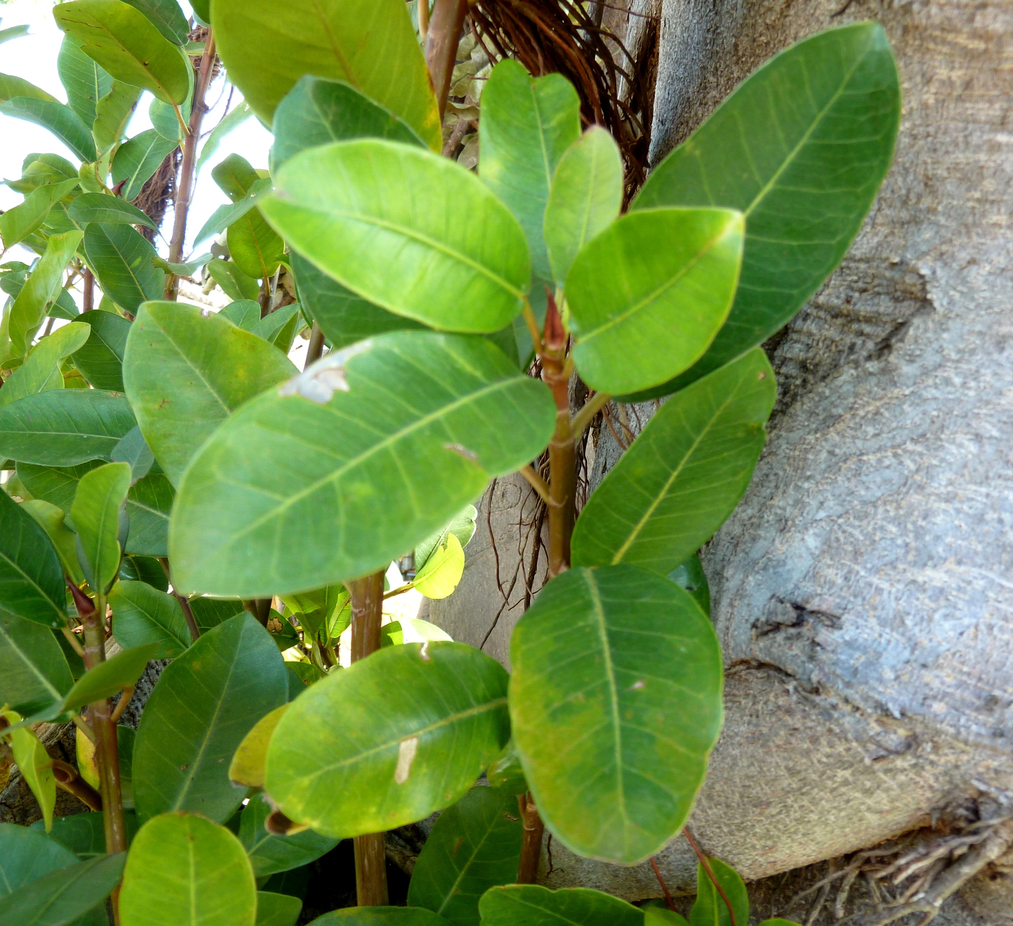 Shoot with leaves of a Common wild fig, Waterberg, South Africa